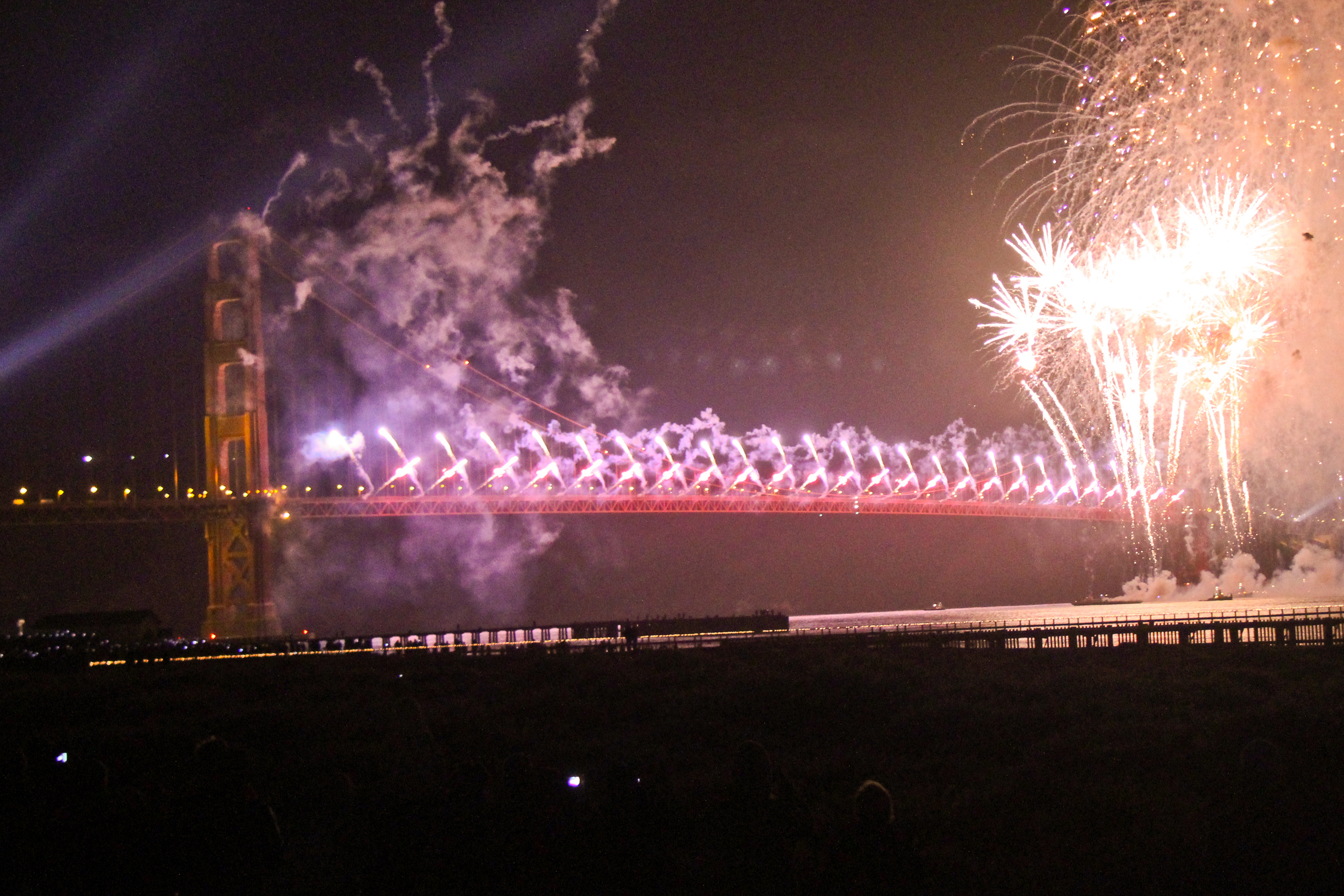 GoldenGate 75th Anniversary